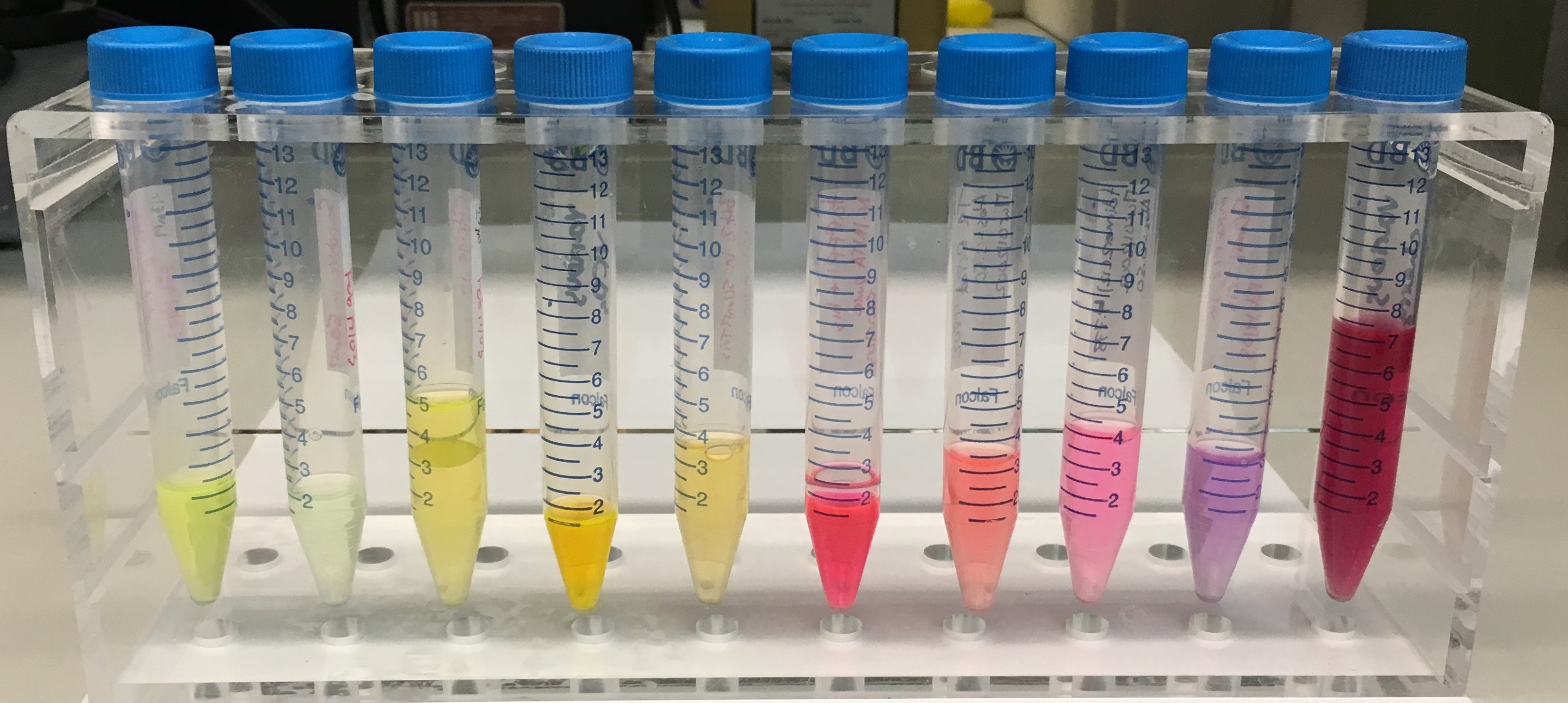 White Light Image of Fluorescent Proteins. Picture taken by Erik A. Rodriguez